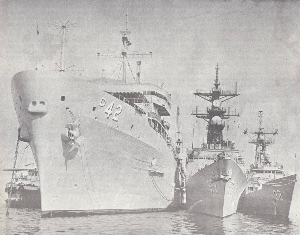 A stock image file from the USS Acadia newspaper "Tendergram" Nov. 1990. It shows the USS Oldendorf and the USS Curts alongside and a sea-going tug on the other.